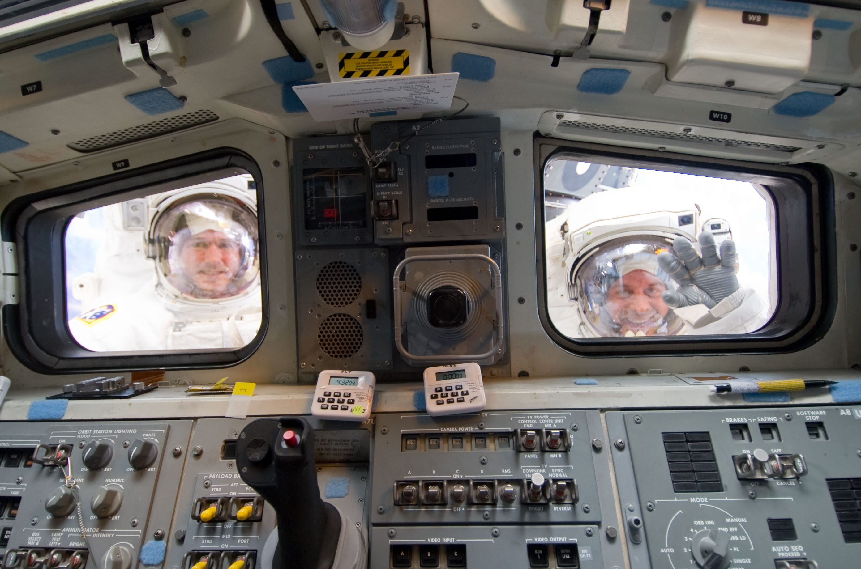 NASA astronauts Michael Good (left) and Garrett Reisman, both STS-132 mission specialists, look through the aft flight deck windows of space shuttle Atlantis during the mission's third and final session of extravehicular activity (EVA) as construction and maintenance continue on the International Space Station.